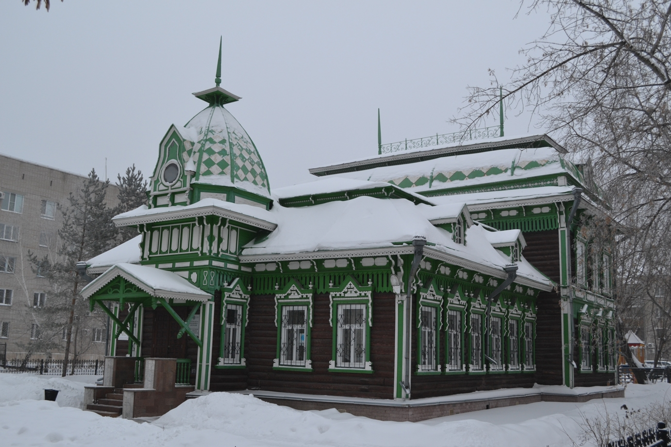 Yusefovich House